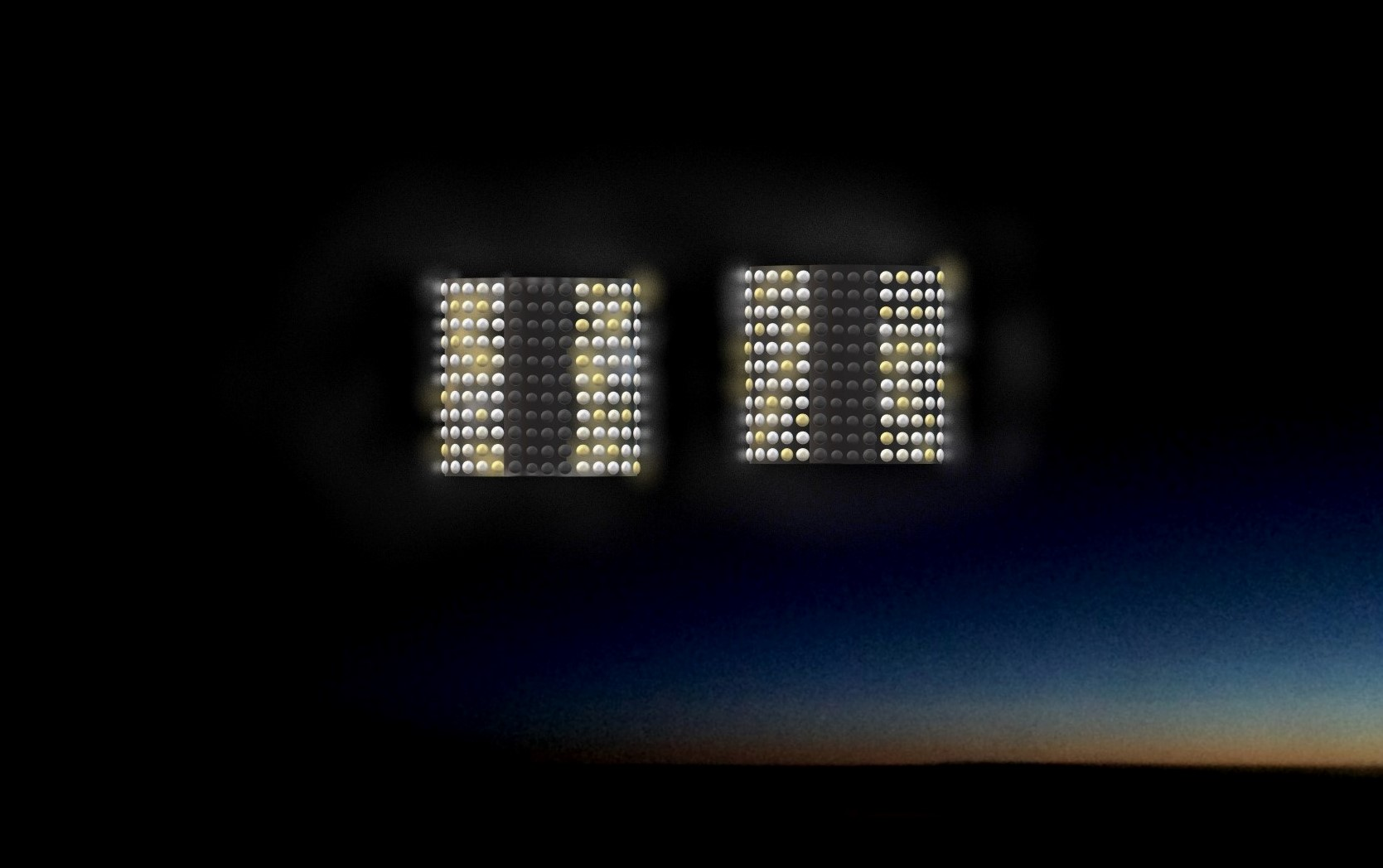 Two craft observed by Captain Terauchi and crew flying in formation in front of the Boeing cargo aircraft, based on his descriptions and drawings.